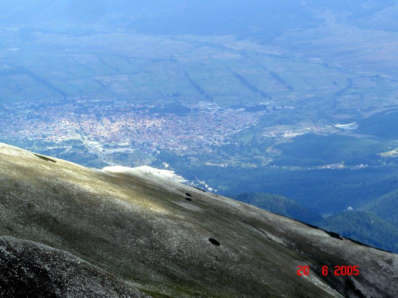 mountain town Bansko in Bulgaria. View from summit Vihren, the higher summit in Pirin mountain in Bulgaria